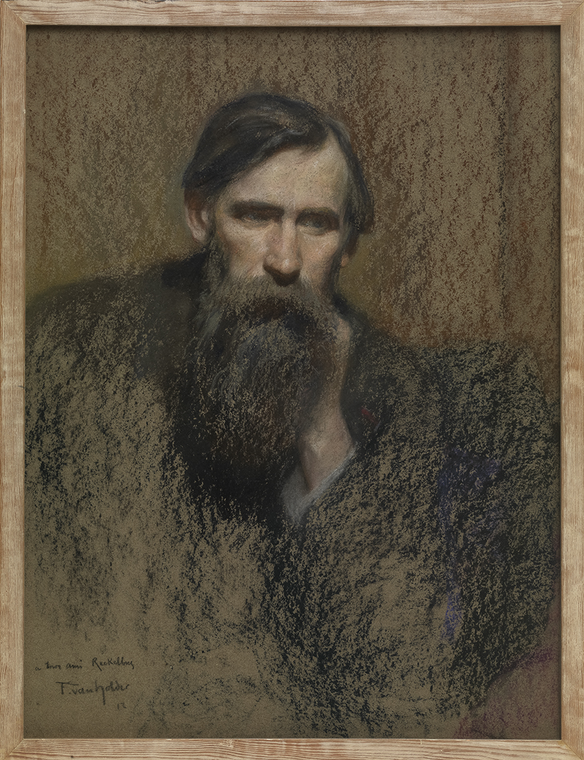 Portret van Louis Reckelbus (Frans Van Holder, circa 1882 - circa 1919); collection: Musea Brugge - Groeningemuseum